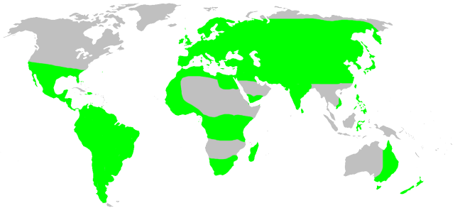 Mimetidae habitat distribution, drawn after Platnick: World Spider Catalog 7.0. This is not a precise rendering of the distribution! If you have better information, please replace this map, or send me the info, and i will redraw it.